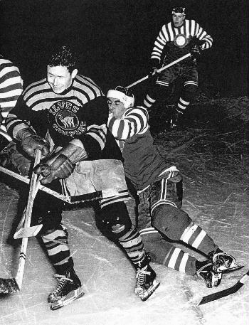 Finnish ice hockey player Teppo Rastio playing for Ilves Tampere in a game against HJK Helsinki.